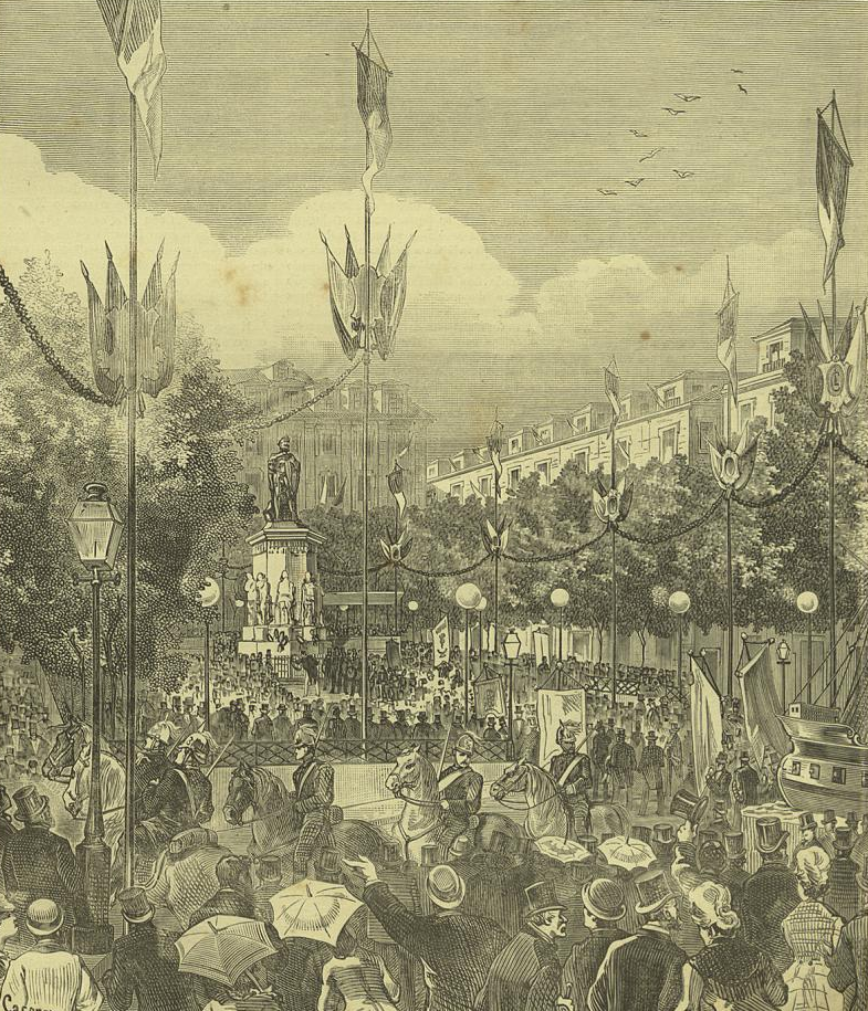 Celebrations of the tricentennial of Luis de Camões (c.1524–1580). The parade arrives at Luís de Camões Square.